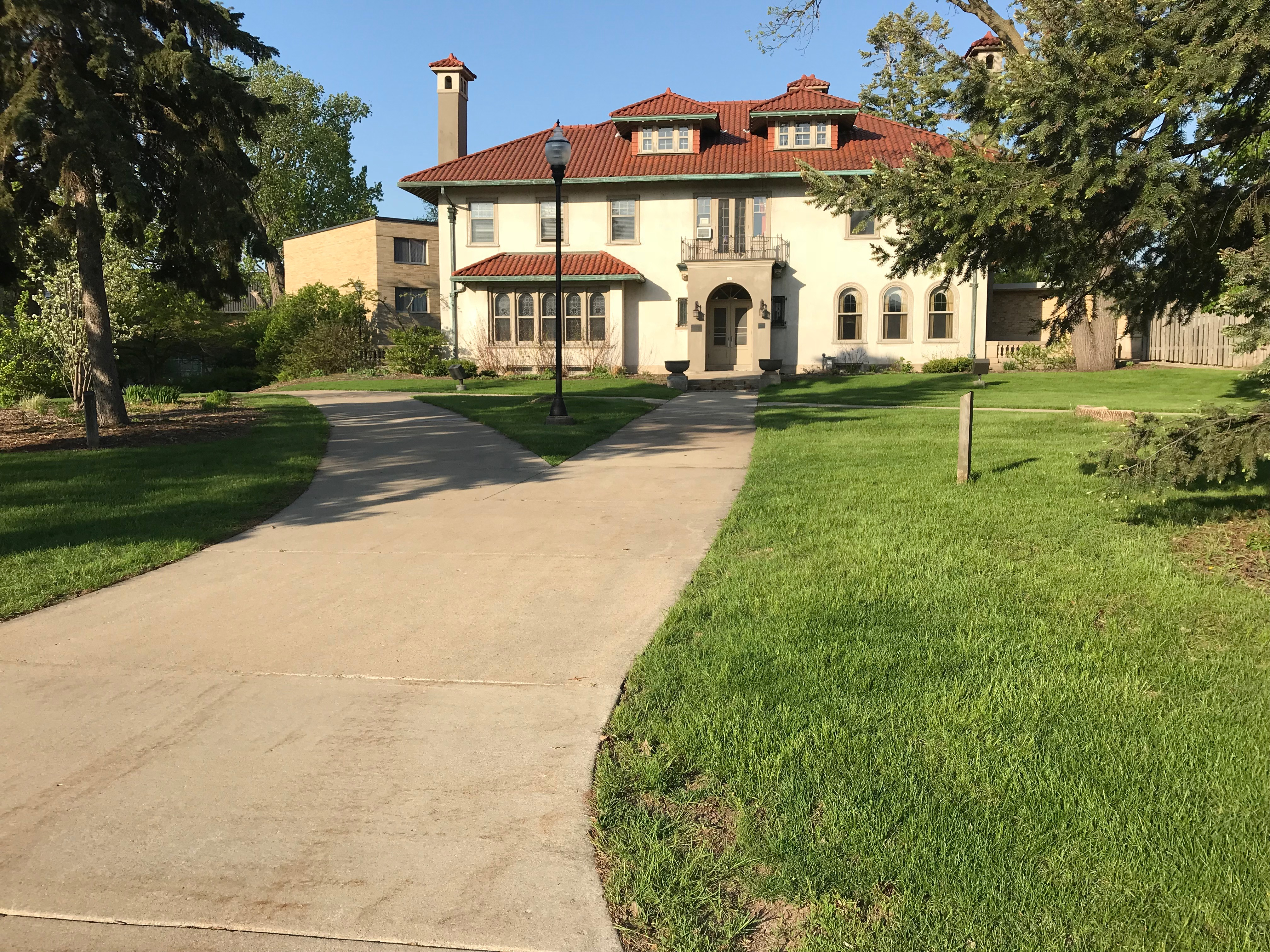 The William E Pollock Residence on the University of Wisconsin Oshkosh campus